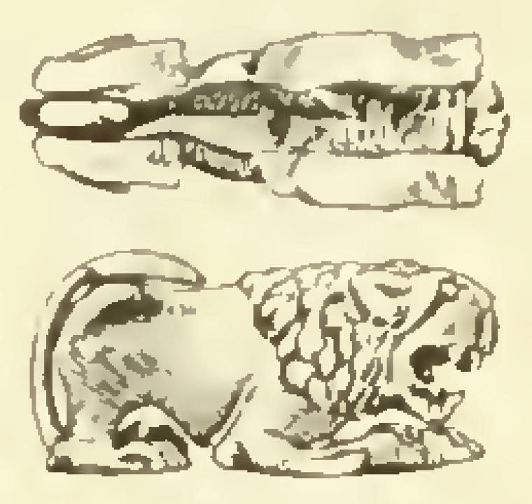 Silver figure of a lion in a crouching attitude, with mouth opened.